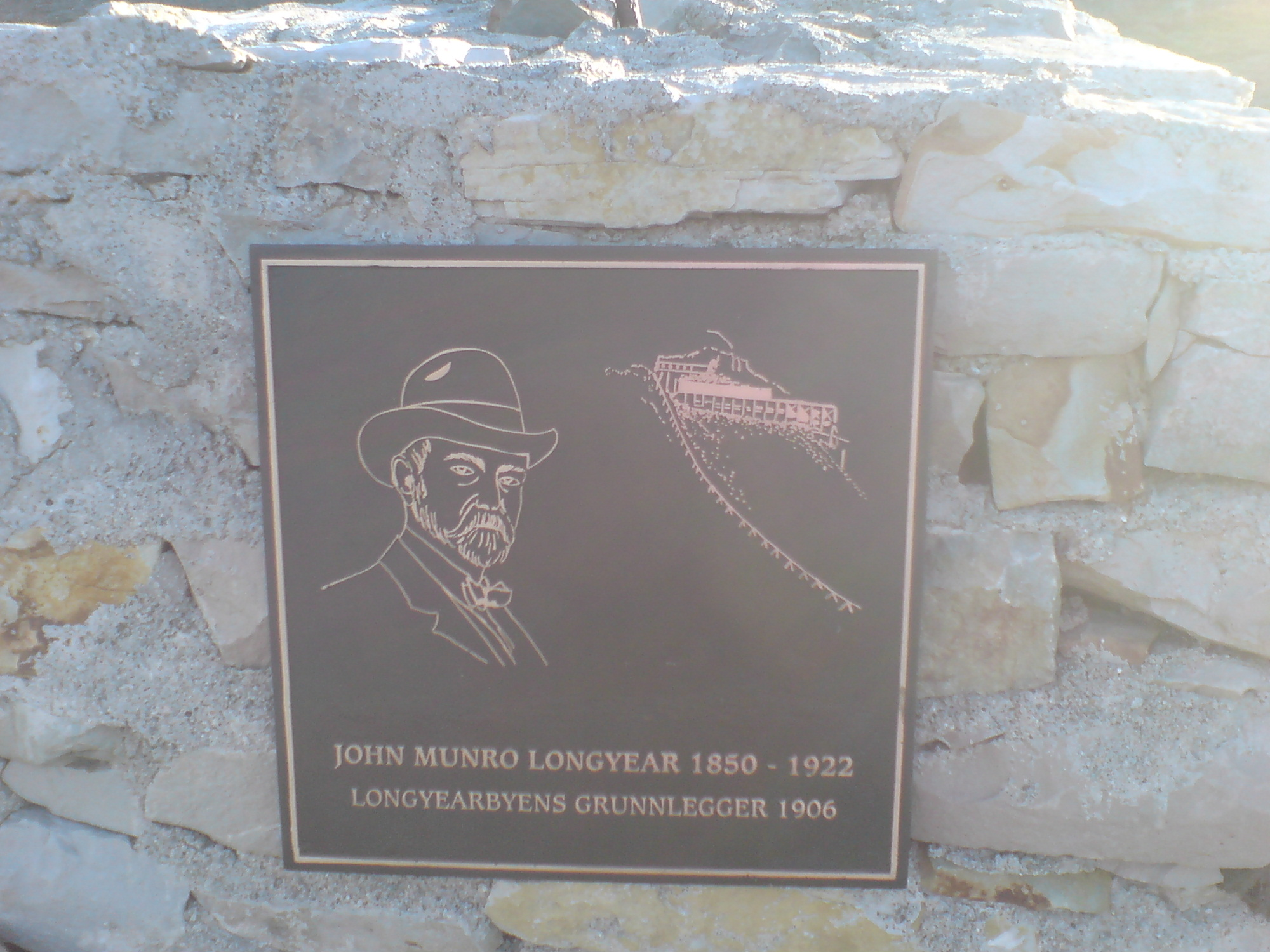 John Munro Longyear plaque in Longyearbyen, Svalbard (Spitsbergen)